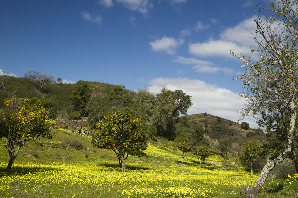 Mass vegetation of Oxalis pes-caprae in a citrus garden in the Algarve (Portugal)